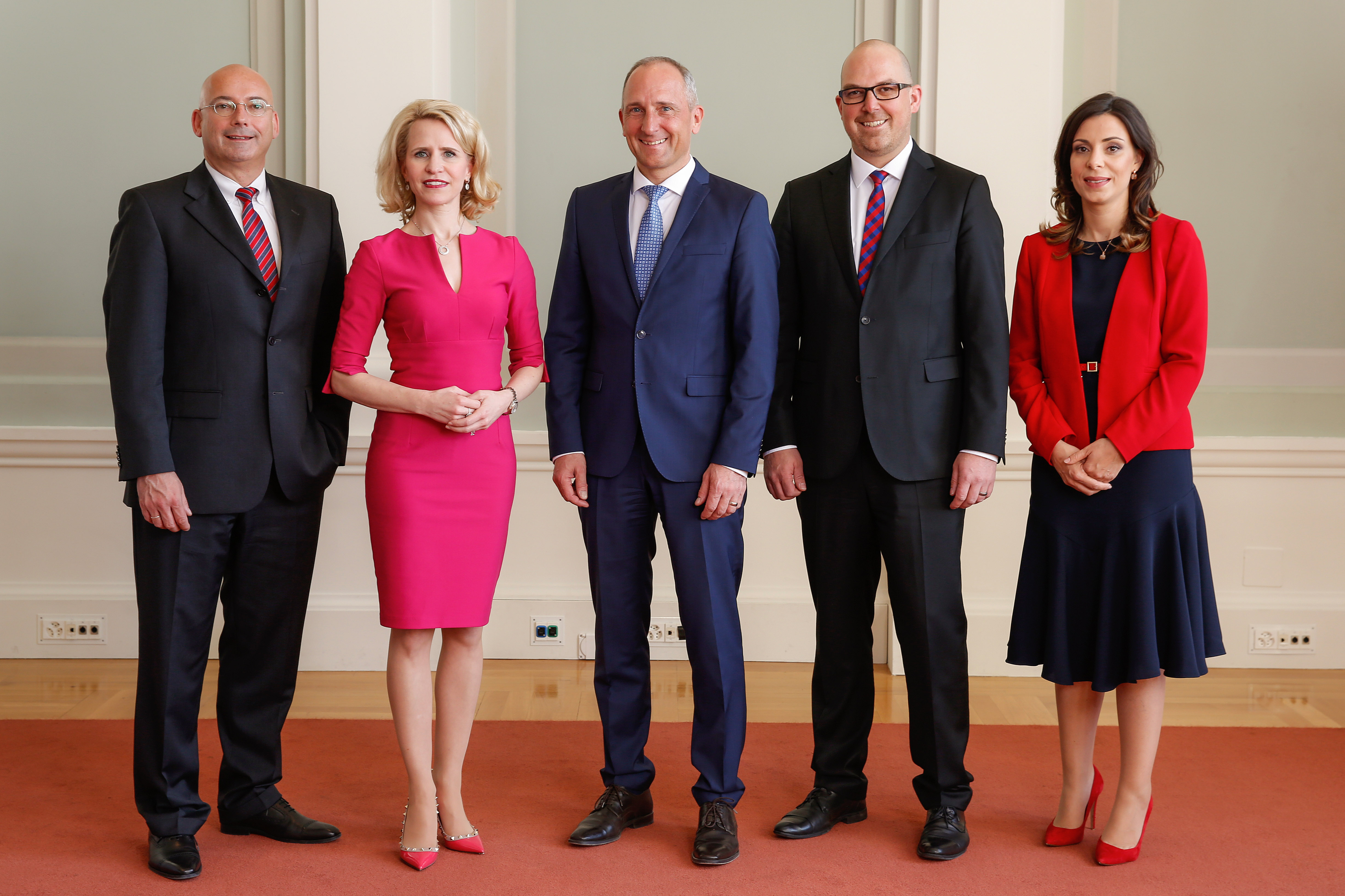 The government of the principality of Liechtenstein at the day of the inauguration. From left to right: Ministers Mauro Pedrazzini and Aurelia Frick, Prime Minister Adrian Hasler, Deputy Prime Minister Daniel Risch and Minister Dominique Gantenbein.